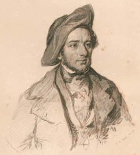 Alexis Soyer in 1849